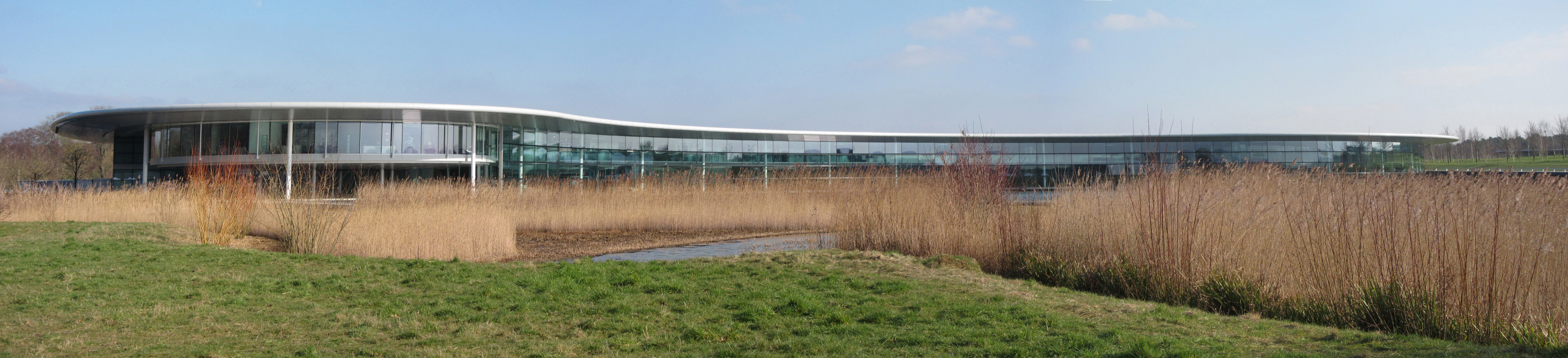 McLaren Technology Centre